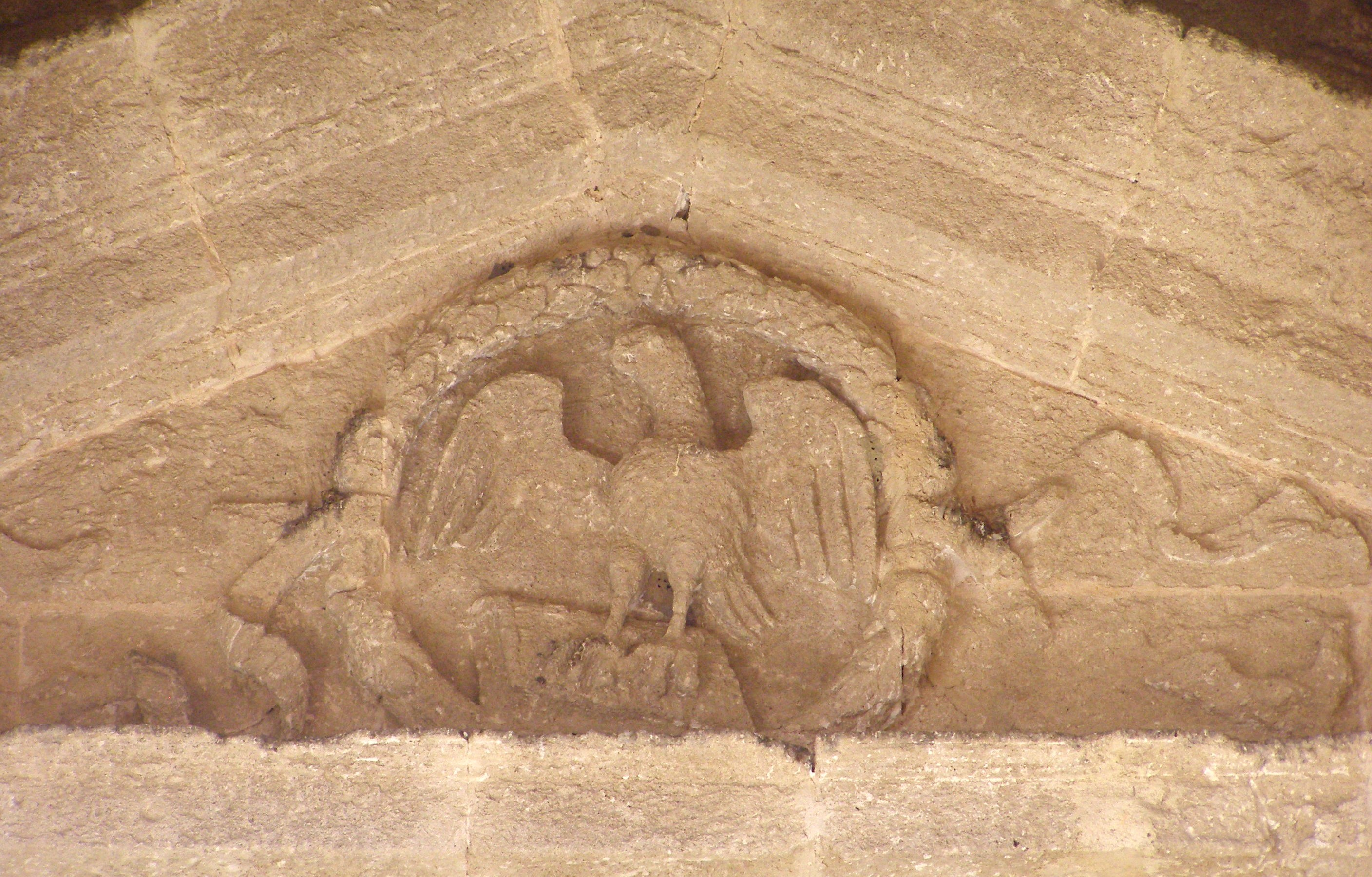 San Juan de los Caballeros. Eagle, Saint Joan, Jerez de la Frontera